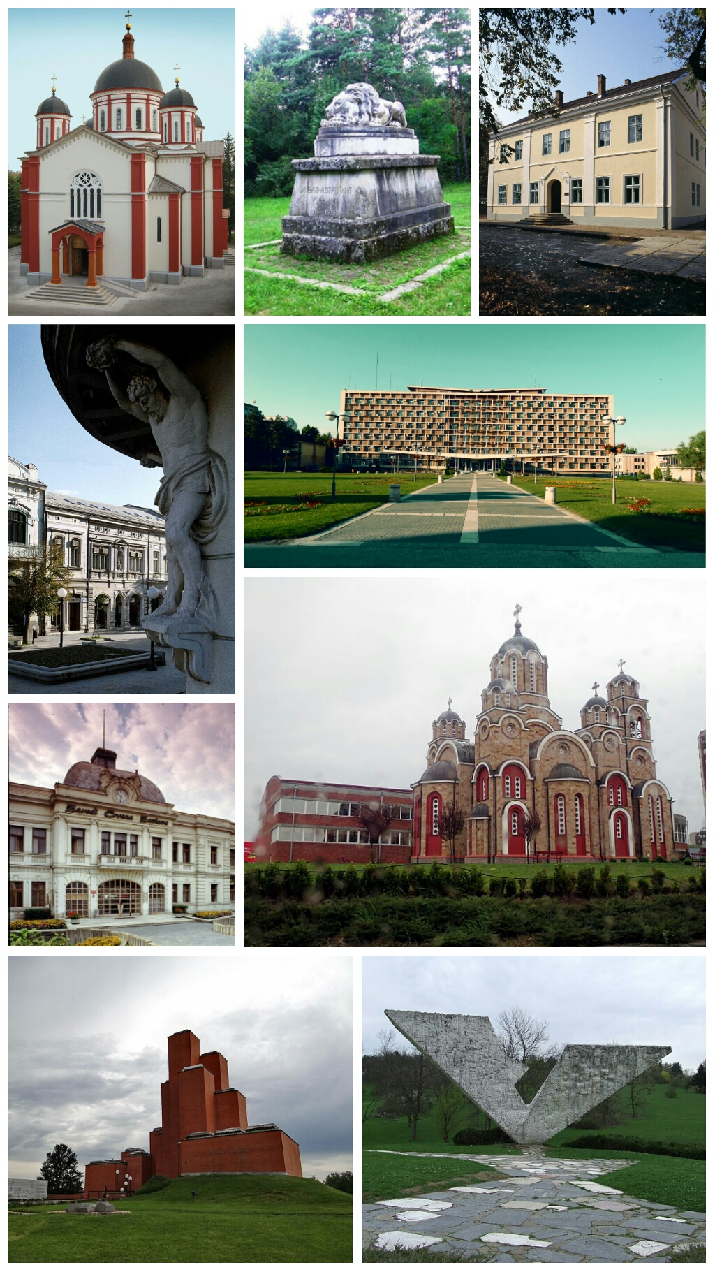 Photoshop of Kragujevac (Temple of the Assumption of the Most Holy Theotokos, Monument of stone lion in Šumarice, National Museum of Kragujevac, Architecture in Kragujevac, City Assembly Building, Directorate building of Zastava, Temple of Saint Sava in Kragujevac, The 21 October Museum, Monument to the executed pupils and teachers)